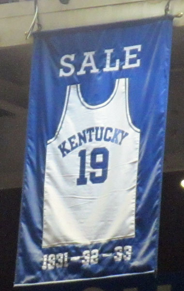 A jersey honoring Forest Sale hanging in Rupp Arena in Lexington, Kentucky